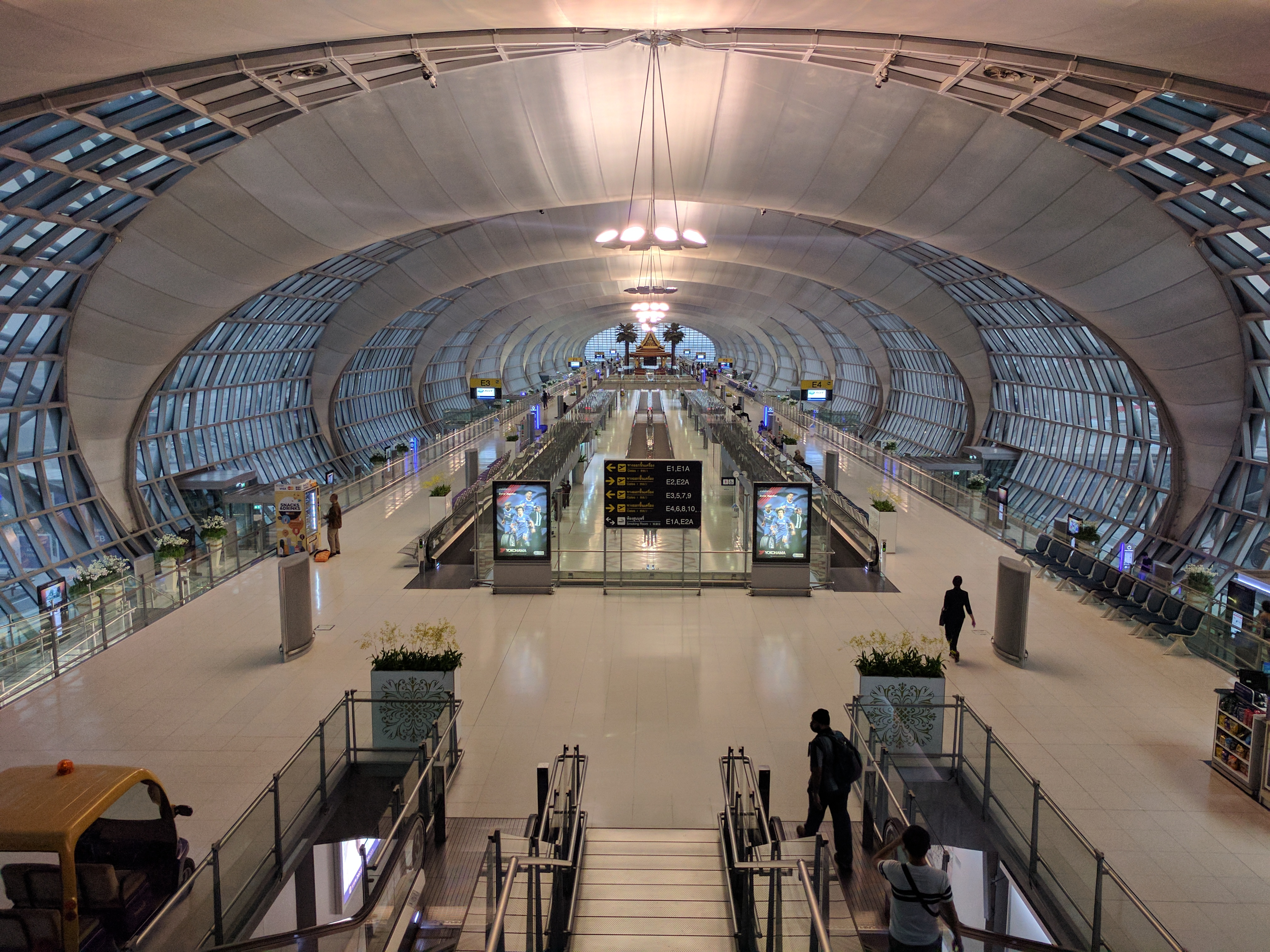 Terminal E of Suvarnabhumi Airport in Bangkok, seen from a slightly elevated point on the stairs.